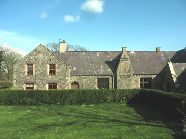 The old National School at Bethel